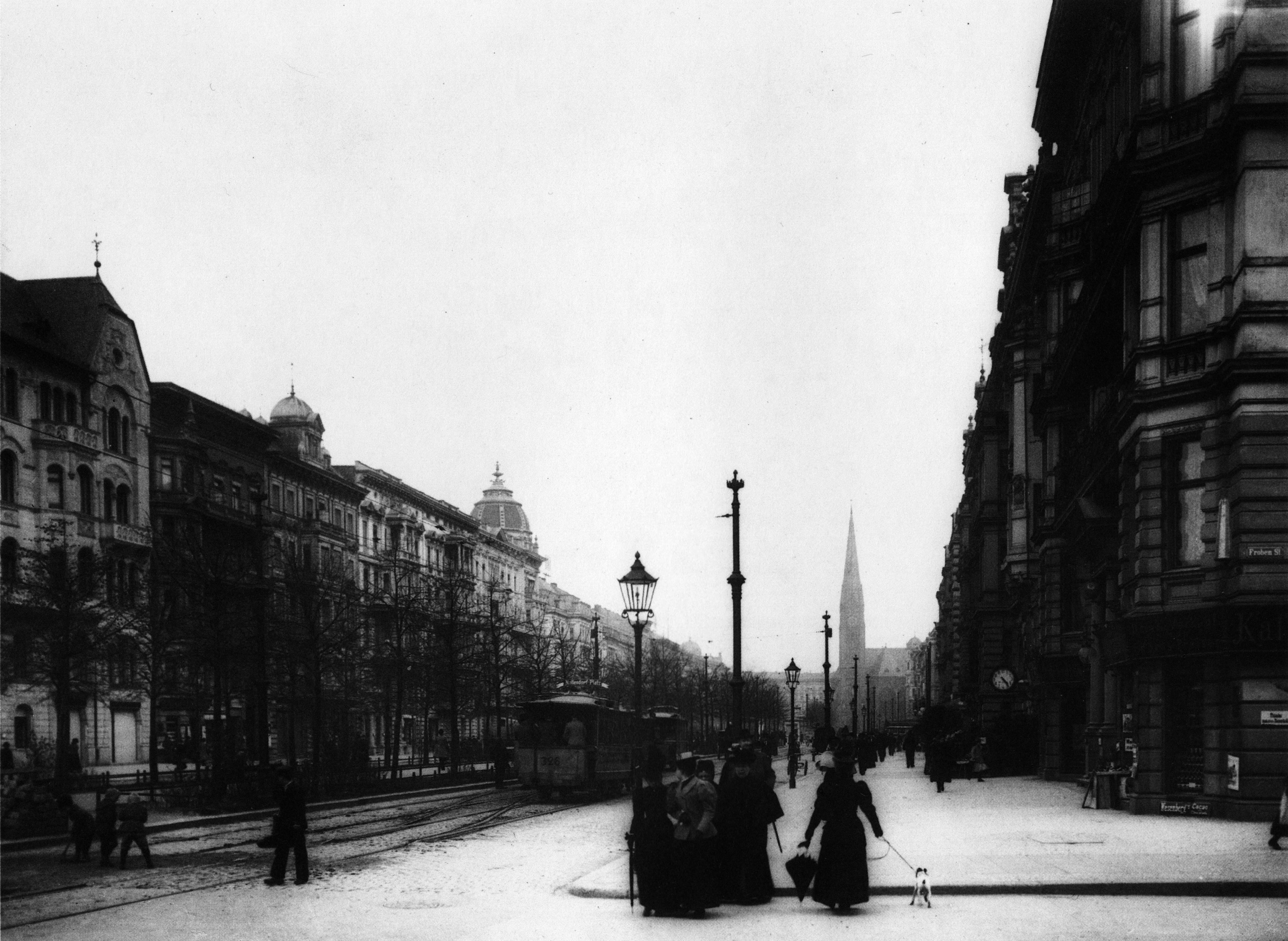 Bülowstraße 18 / Frobenstraße in Schöneberger Vorstadt, Berlin (now in Schöneberg district). In the background visible is Luther's Church.